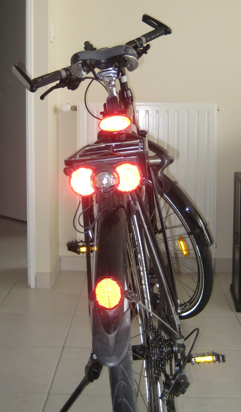 bicycle reflectors, including on pedals and tyres